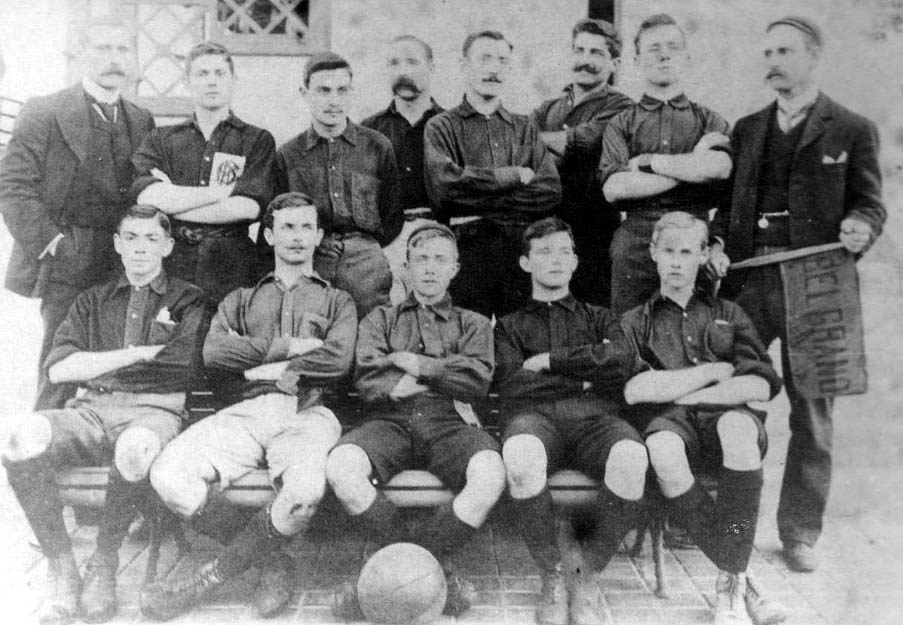 The Belgrano A.C. squad that won the 1902 Primera División championship in Argentine football.